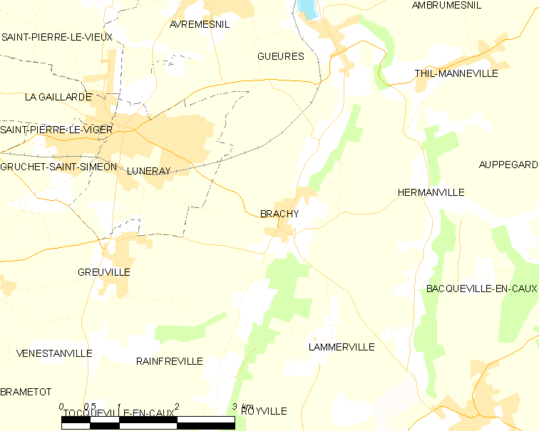 Map of French municipality Brachy